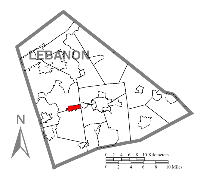 1 Map of Lebanon County, Pennsylvania, United States with township and municipal boundaries highlighting South Londonderry Township is taken from US Census website[1] and modified by Dincher in June 2008. My modifications licensed under the GNU Free Documentation License. Source: US Census website [2] Licensing